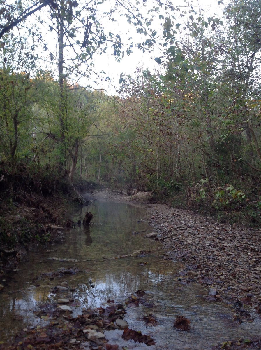 Good morning from the #creek! It's finally feeling like #Fall. #knobcreek #lincolnbirthplace #Kentucky #NPS